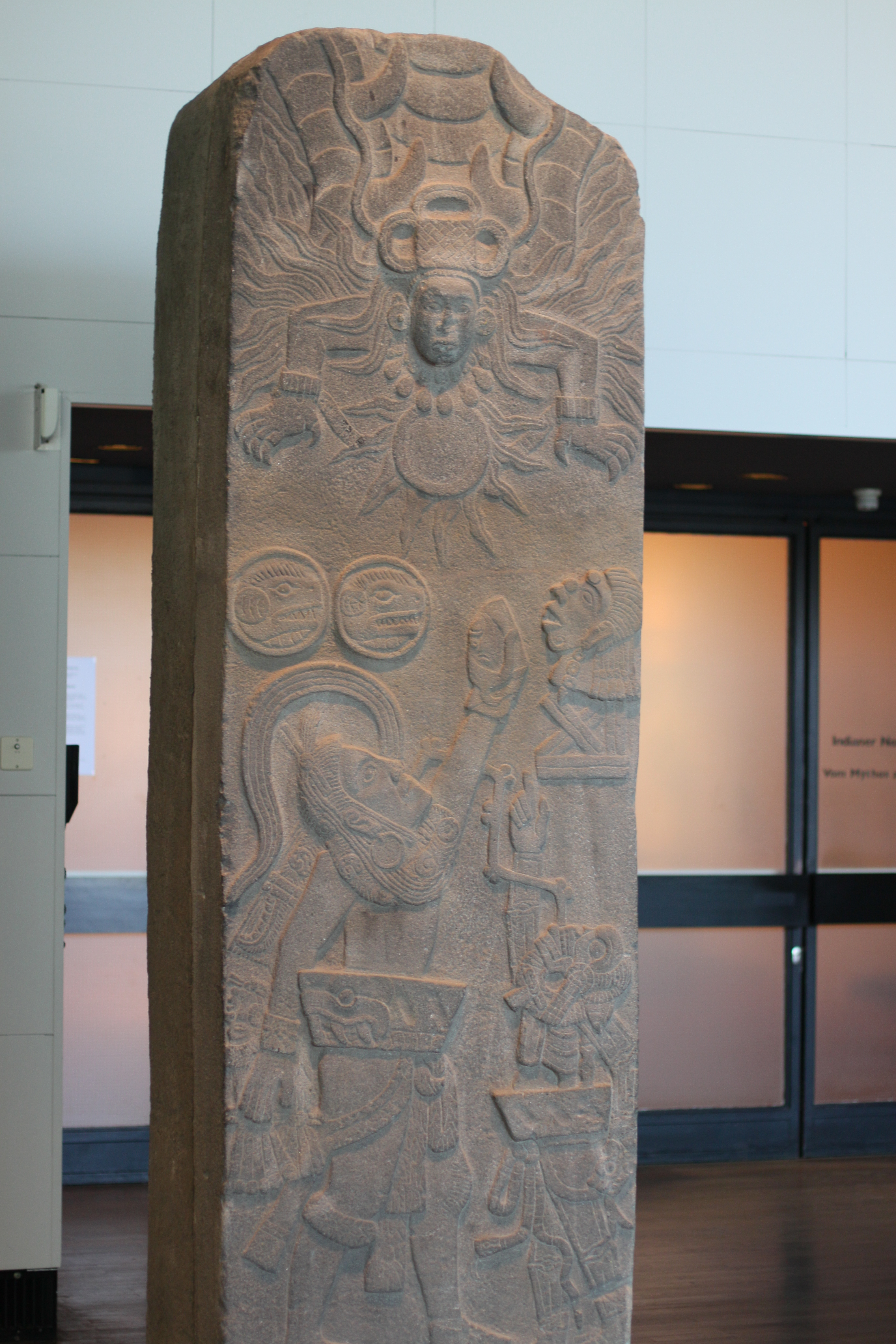 Monument 3 from Bilbao, Santa Lucía Cotzumalguapa, Guatemala, in the Ethnological Museum of Berlin.